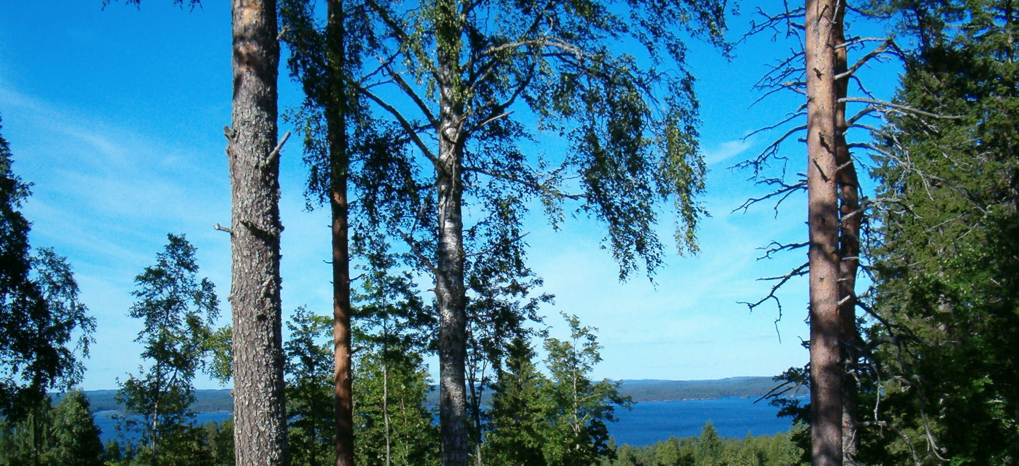 Lake Kermajärvi in Heinävesi, Finland